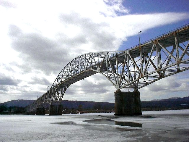 Photograph of Champlain Bridge, connecting the states of Vermont and New York over Lake Champlain, in March 2004.